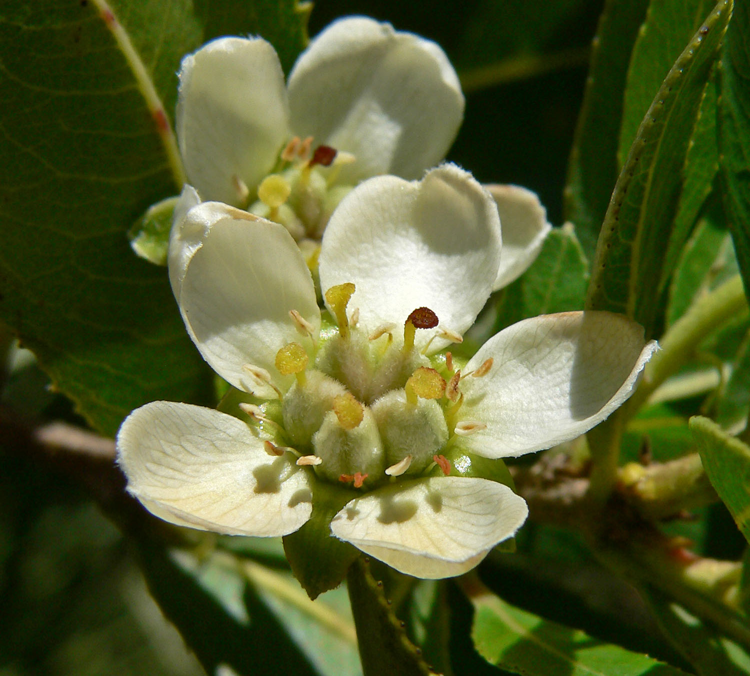 Kageneckia oblonga at the University of California Botanical Garden, Berkeley, California